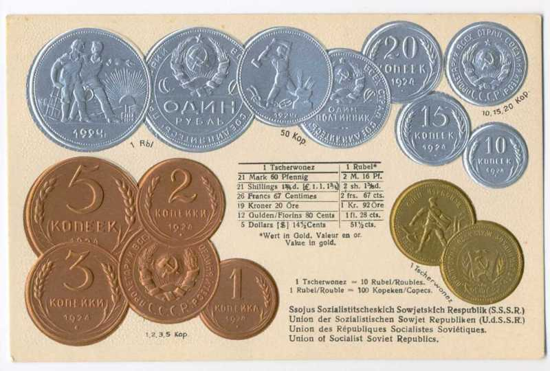 A 1926 postcard depicting all the coins of the Union of Socialist Soviet Republics.